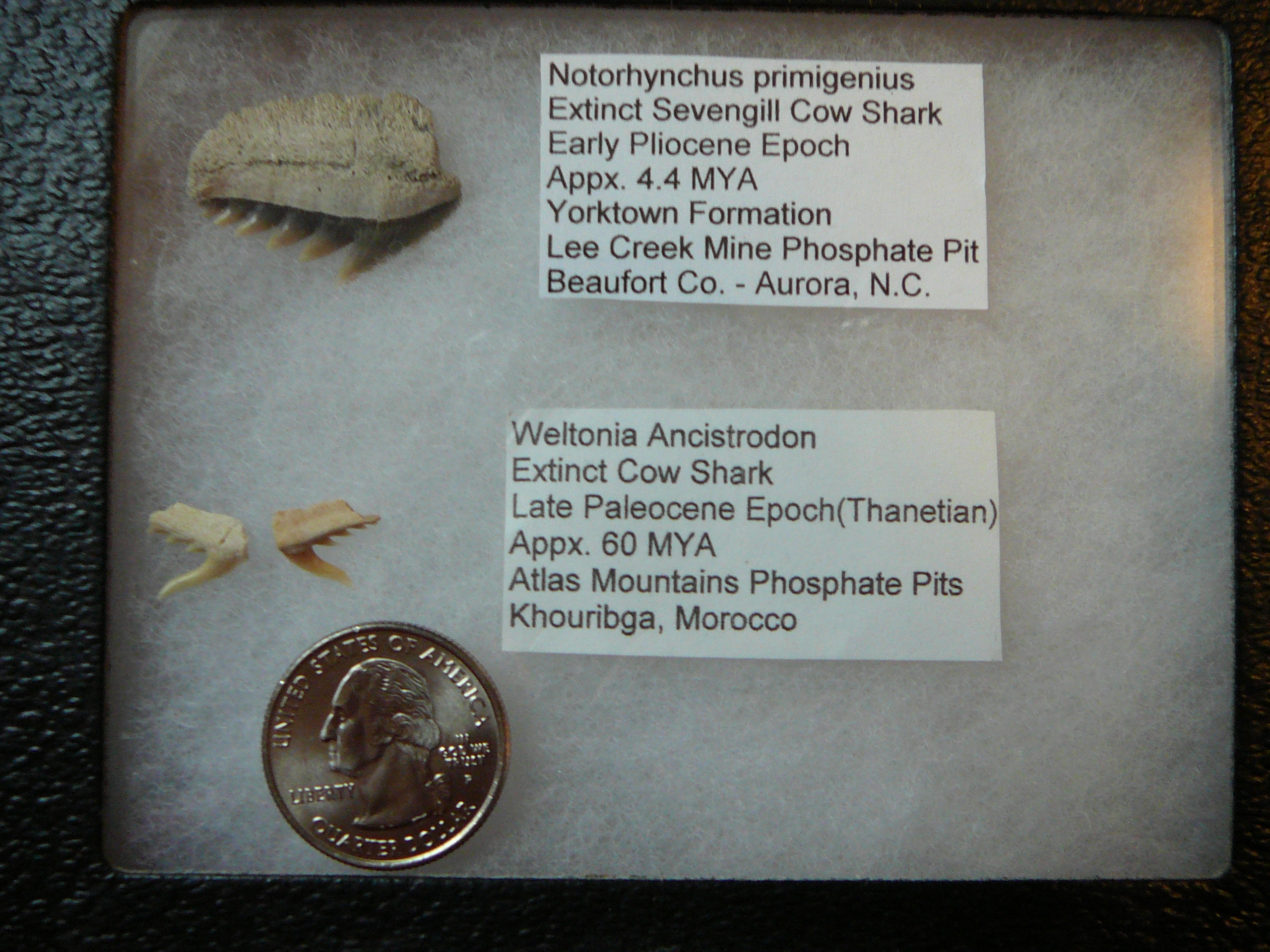 Notorhynchus, Weltonia: 2 different species of fossilized cow shark teeth in a ryker display case.